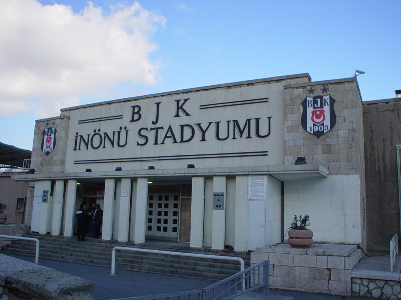 Taken in January, 2005 by myself.